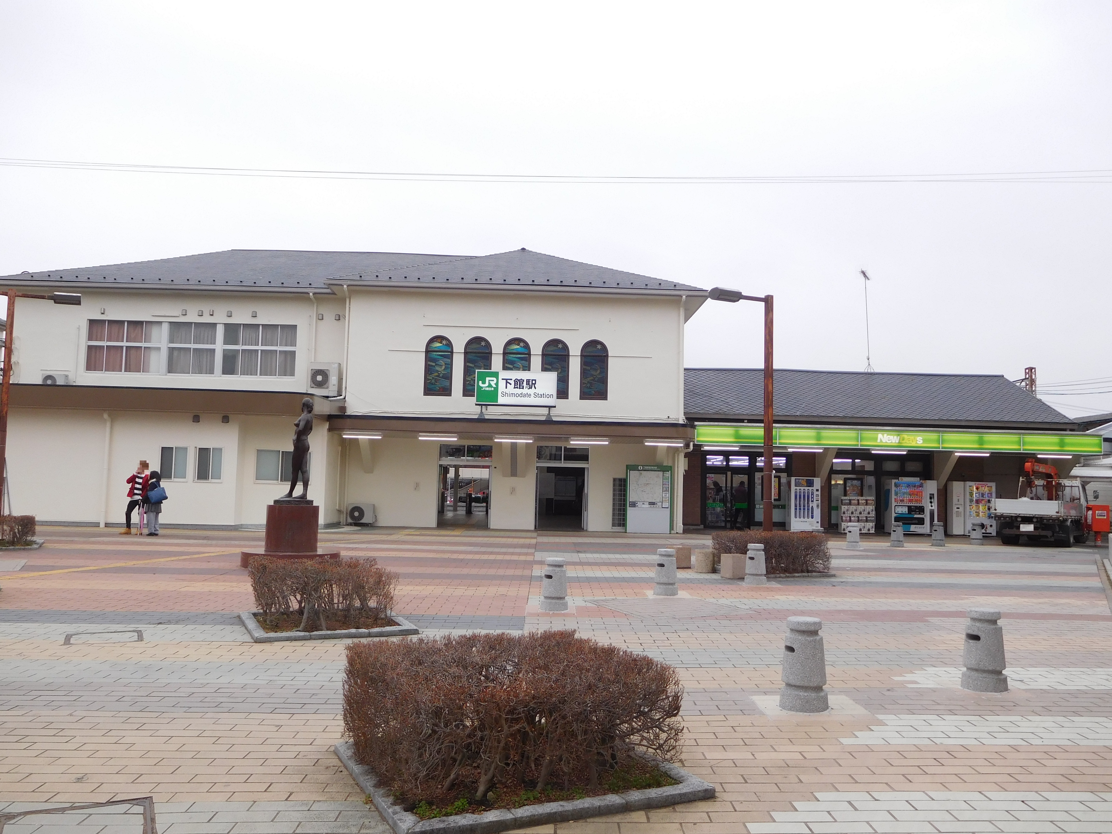 This is the north entrance of Shimodate station in Chikusei, Ibaraki, Japan.